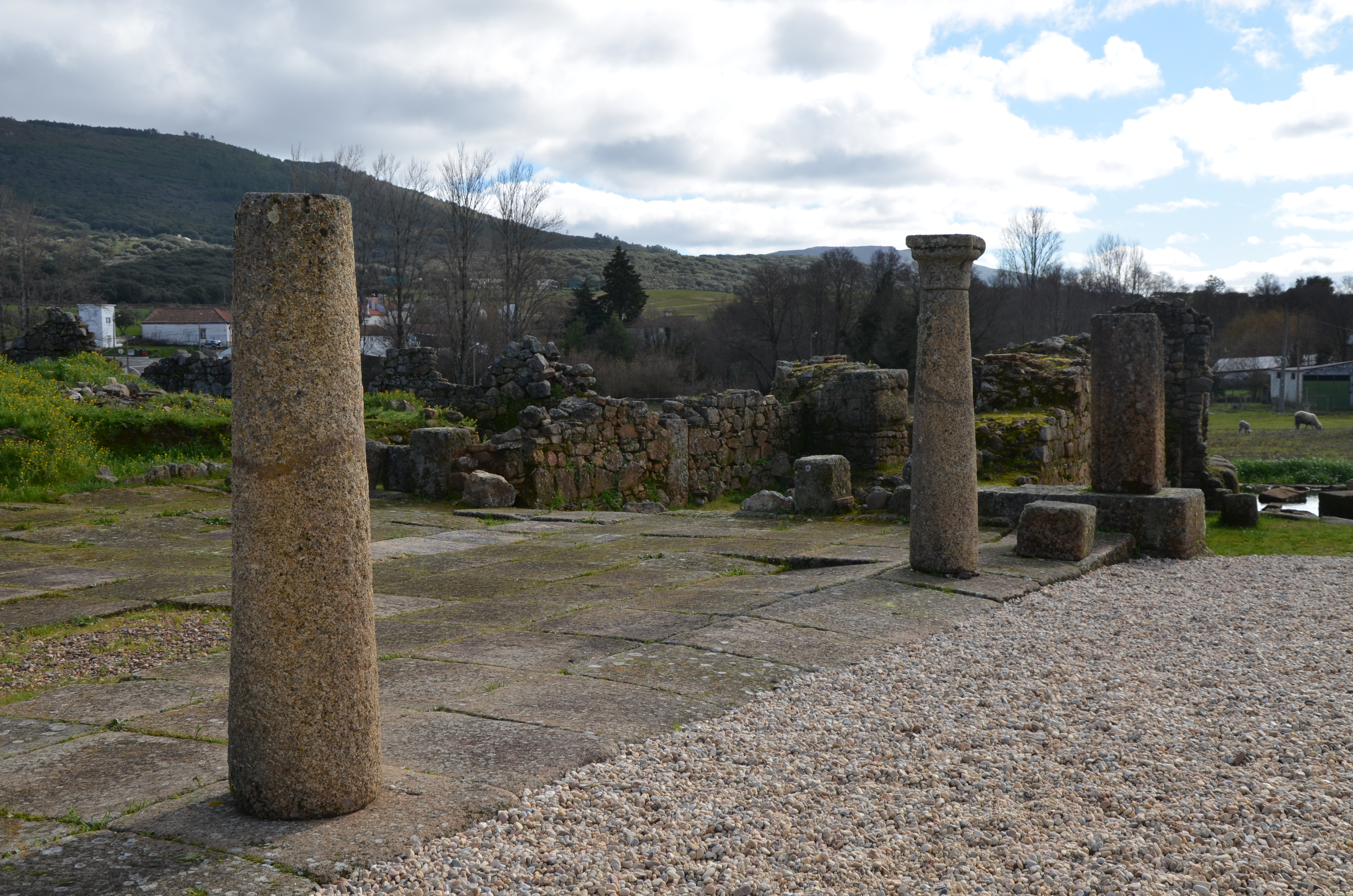 Roman villa of Ammaia, Lusitania, Portugal